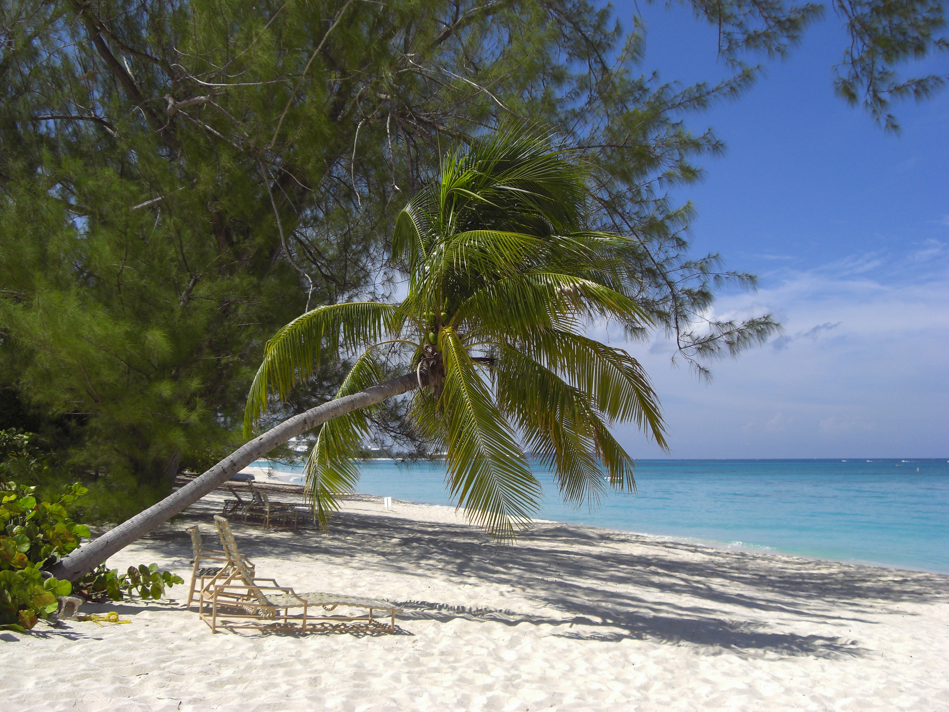 Beach in Grand Cayman, Cayman Islands